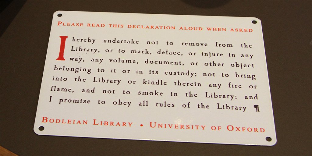 All readers admitted to the Bodleian must swear Thomas Bodley's oath.